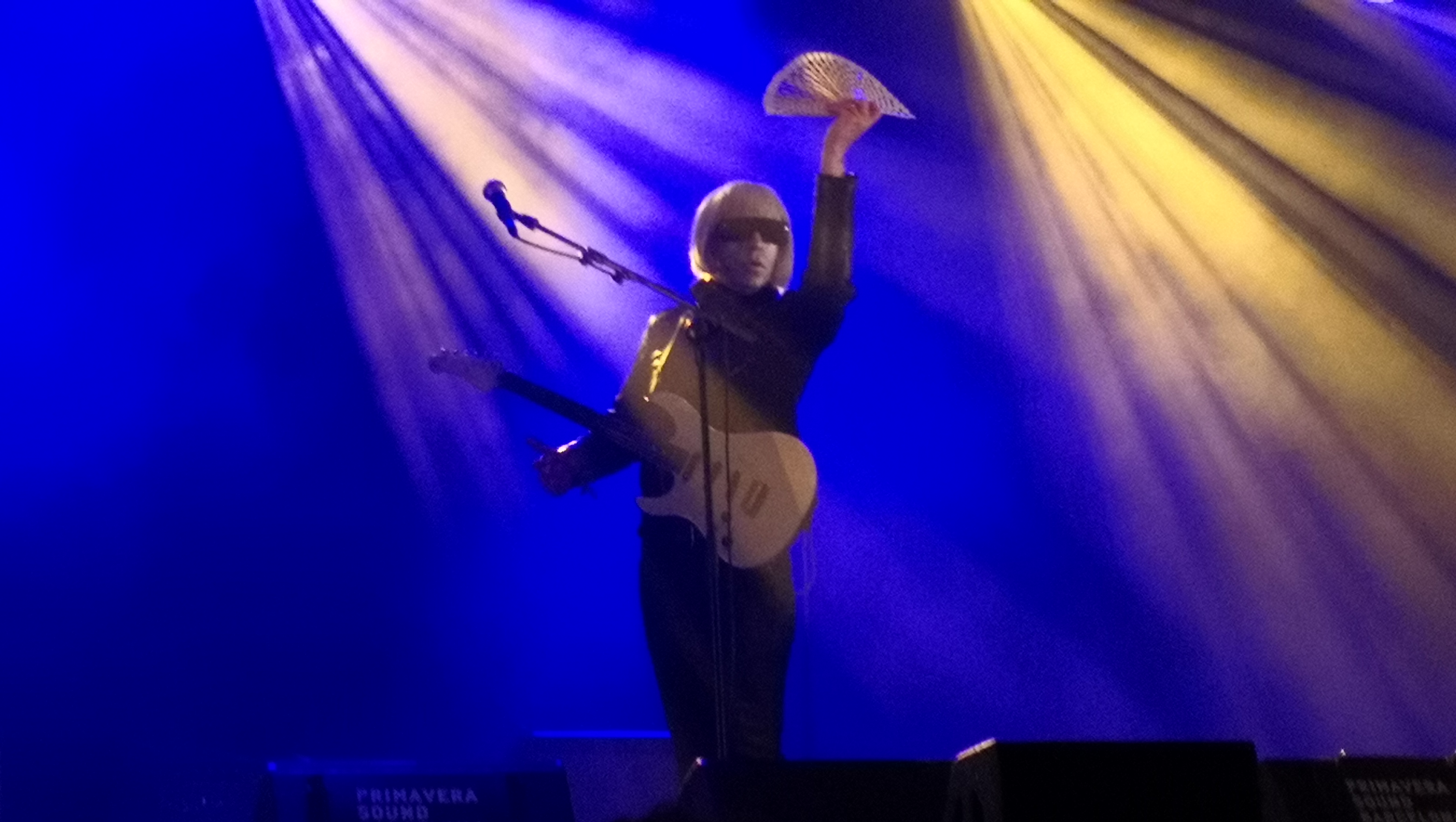 Deb Demure (Drab Majesty) Live Performance during Primavera Sound 2019 (BCN)